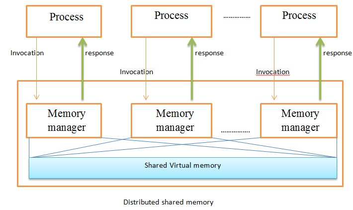 DSM FIGURE